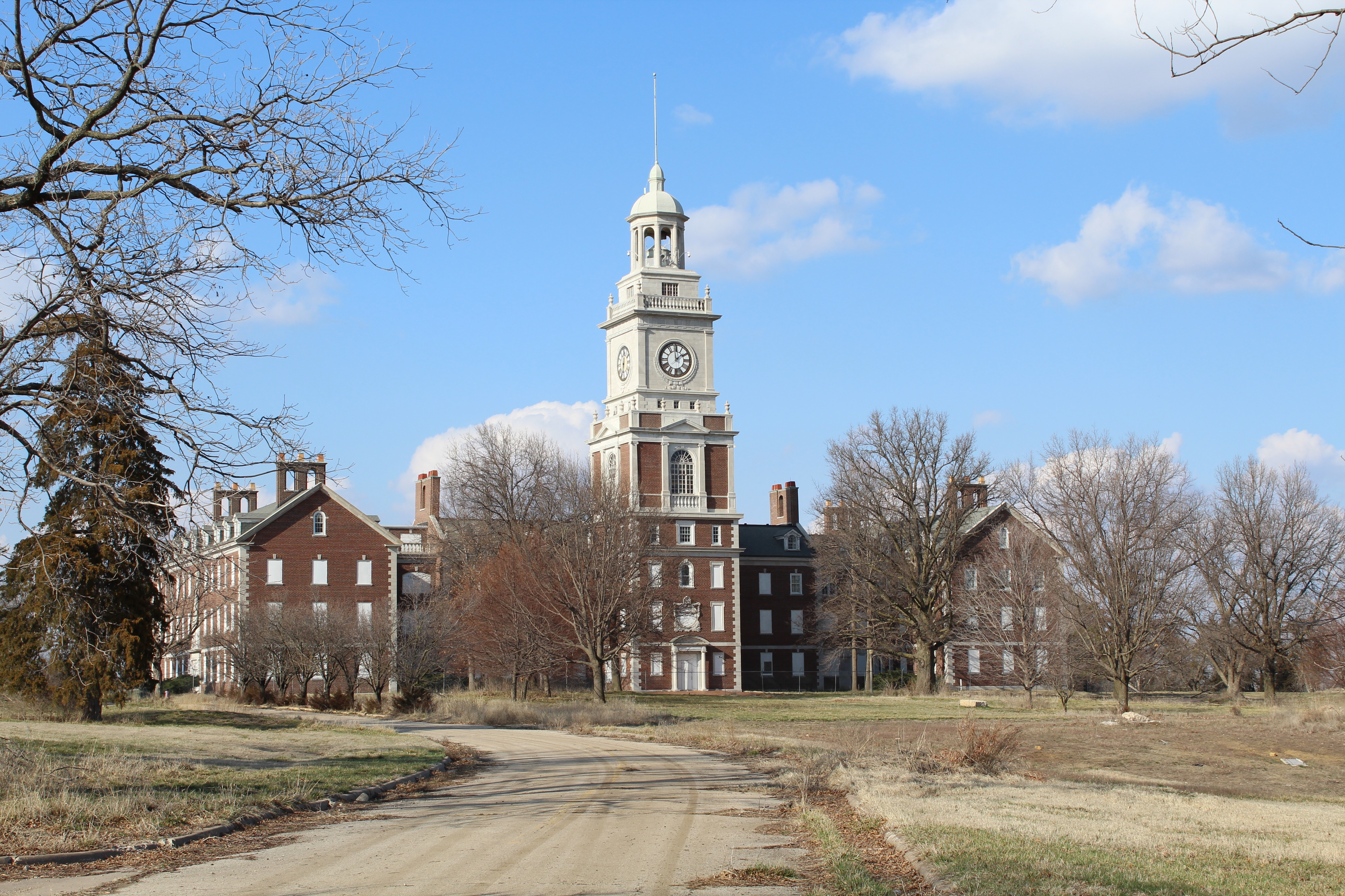 The Menninger Clock Tower building. This was built as the Security Benefit Association's hospital building in 1929.